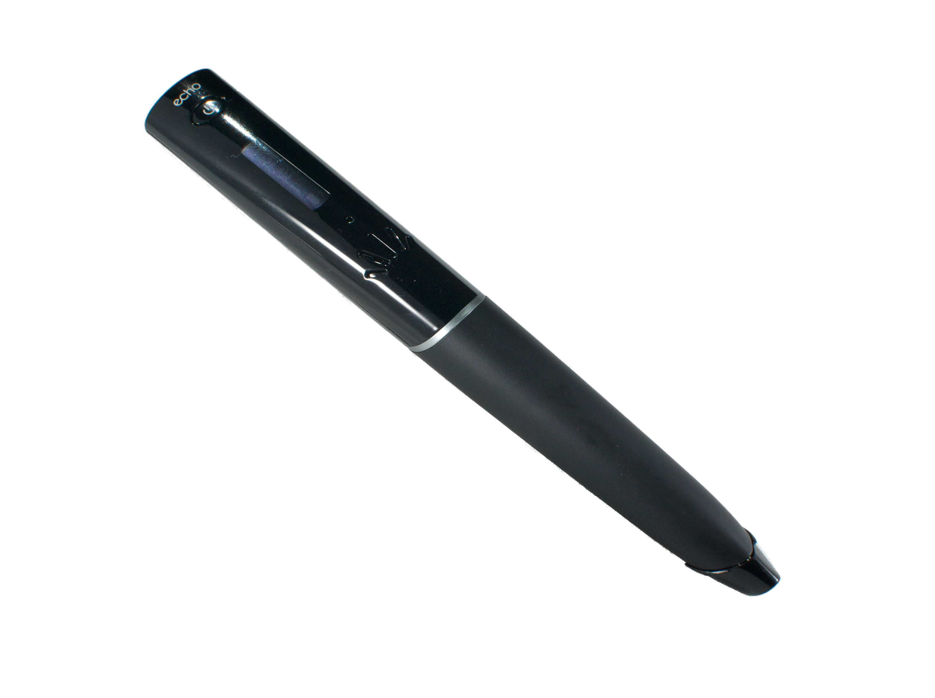 Photo of the Live Scribe Echo pen